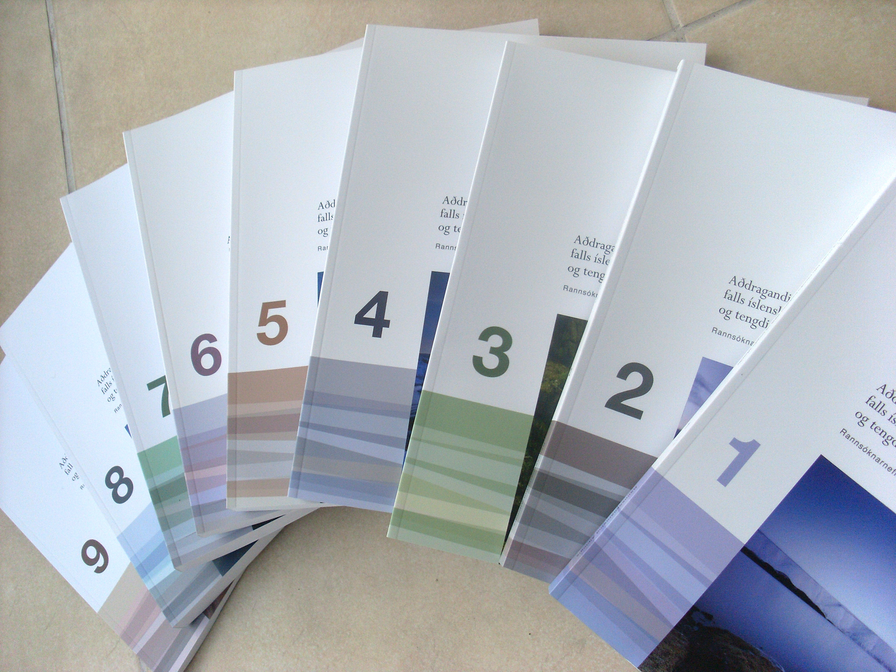 The The Report of the Althingi Special Investigation Commission